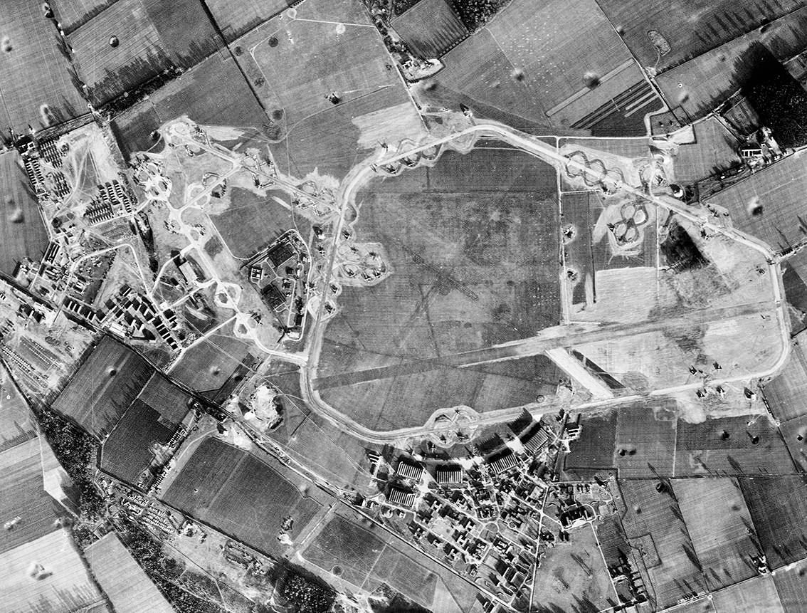 Aerial photography of RAF Honington airfield, 25 January 1944 oriented north. The pre-World War II Honington Airfield is on the right, the 1st Strategic Air Depot is to the left. Note the large number of B-17 Flying Fortress aircraft parked on numerous hardstands at both the airfield and depot. Photograph taken by 7th Photographic Reconnaissance Group, sortie number US/7PH/GP/LOC160. English Heritage (USAAF Photography).